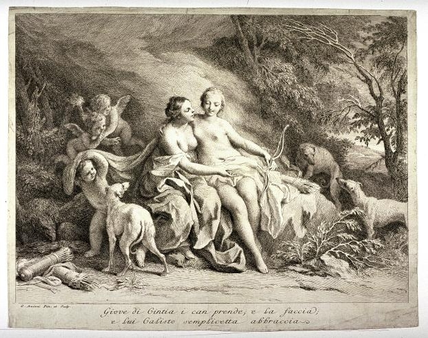 Jacopo Amigoni (1675-1752), Jupiter and Callisto [ca. 1740/1750]. (Jupiter appears under the guise of Diana). Engraving.